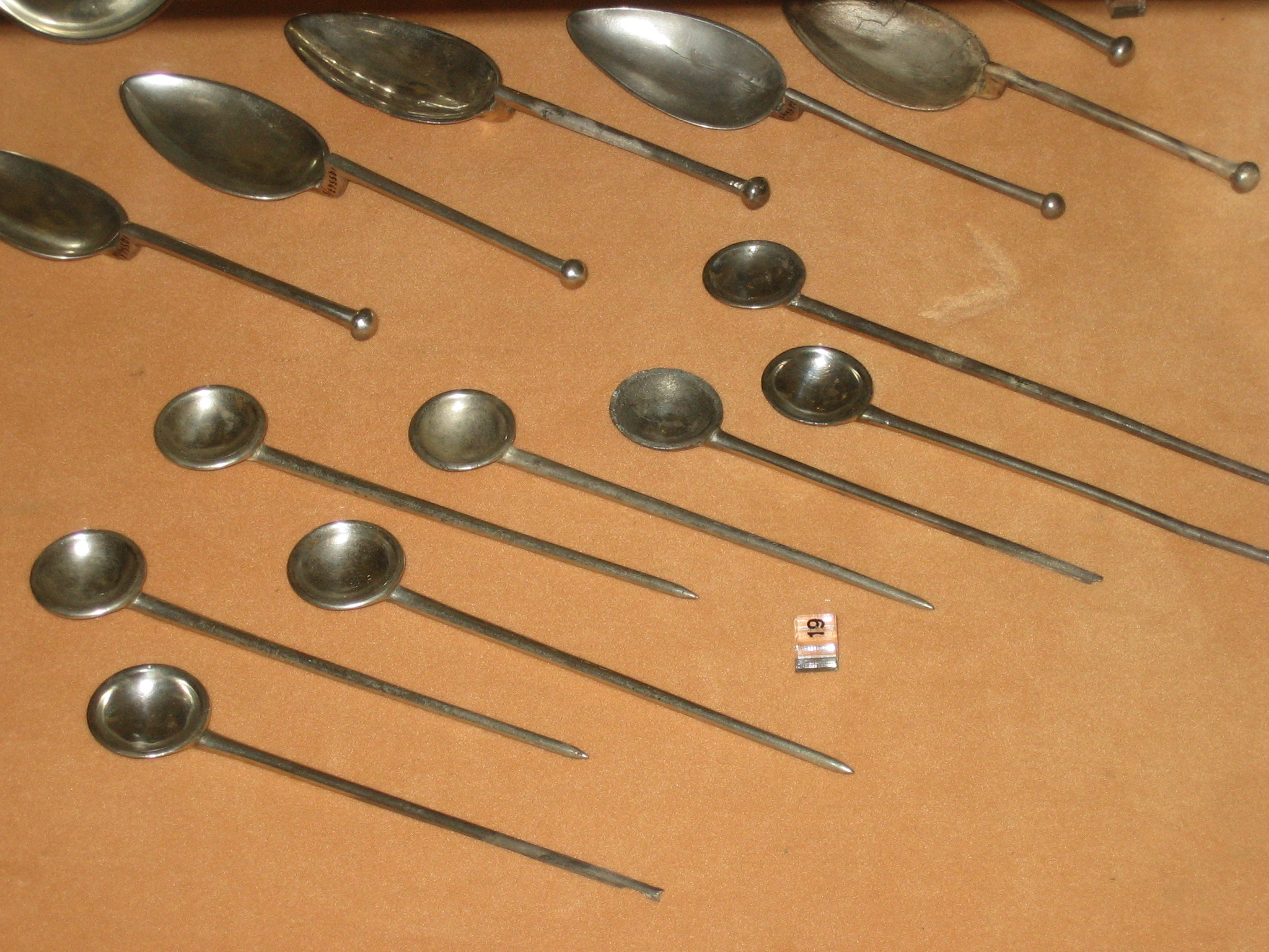 Spoons from Pompeii displayed at Naples National Archaeological Museum